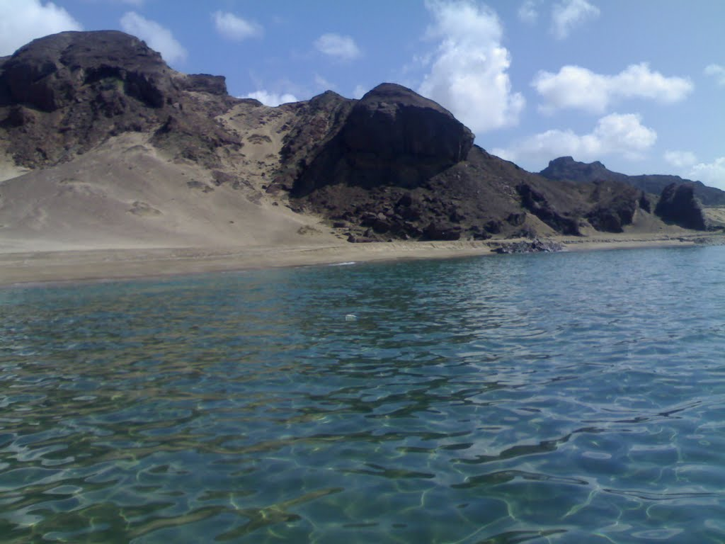 may be Azizi Island